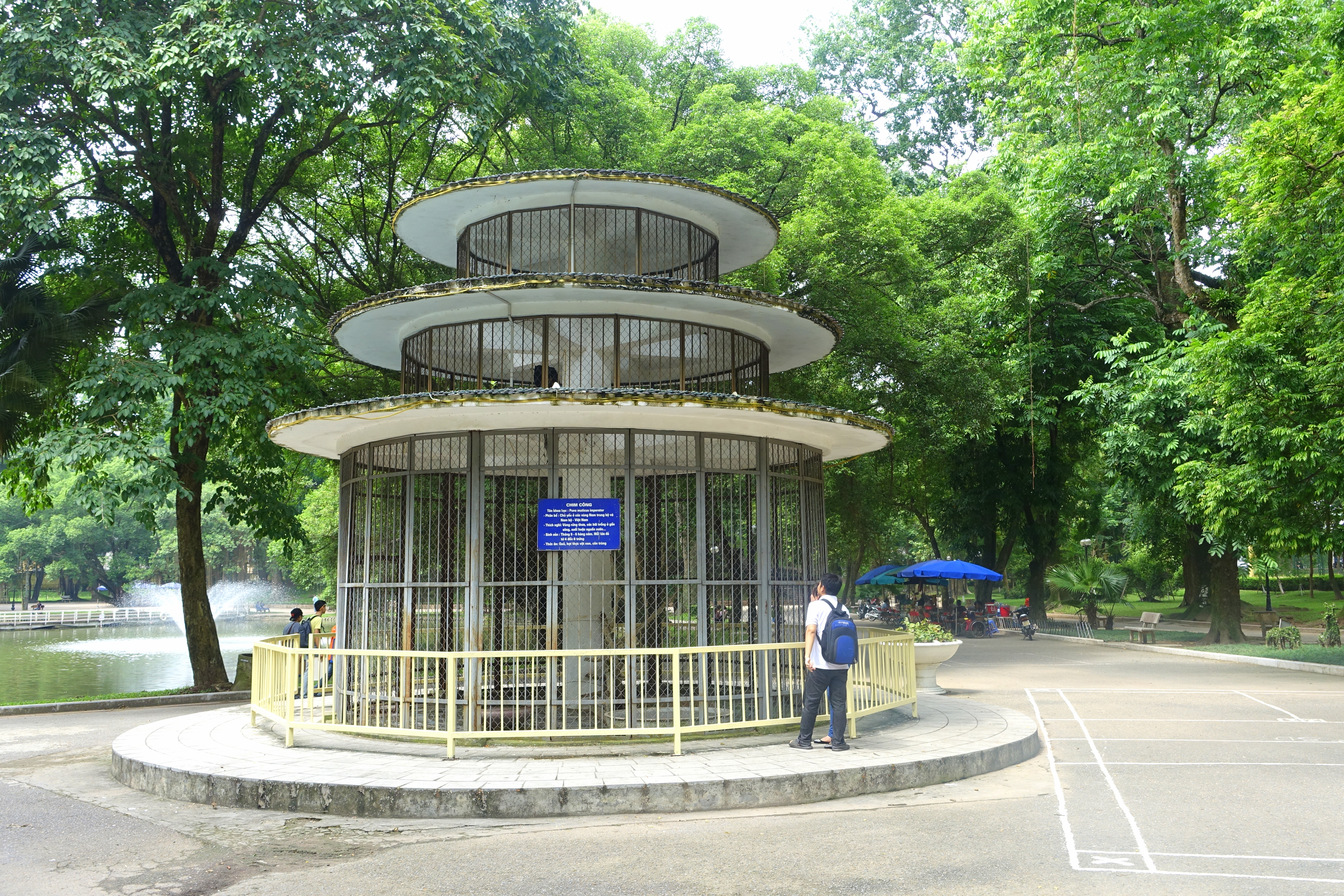 Hanoi Botanical Garden - Hanoi, Vietnam.